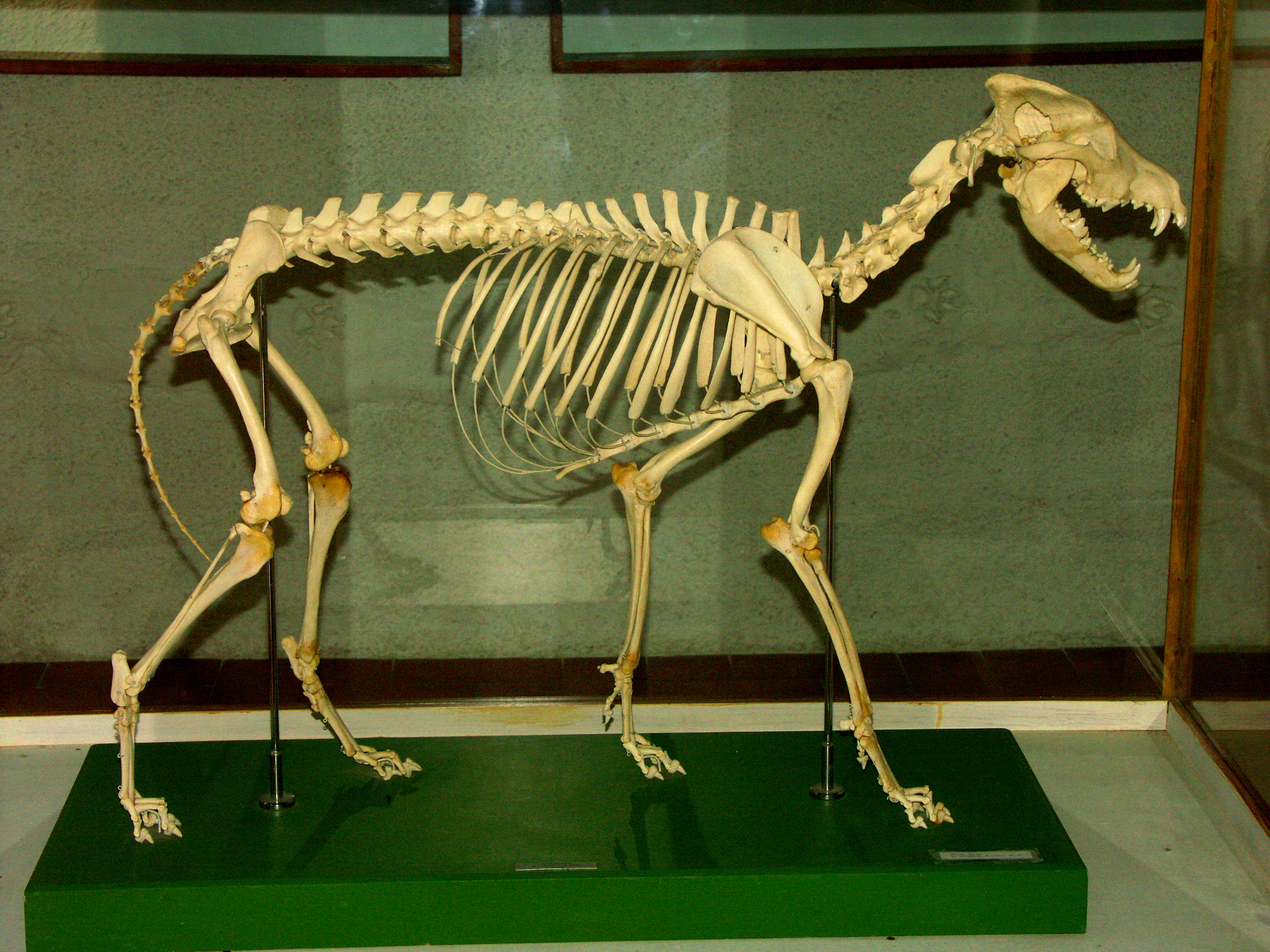 Skeleton of an Italian wolf from Il Museo del Lupo in Abruzzo National Park